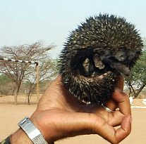 This photo of a Hedgehog was taken in Jaisalmer district, Rajasthan on 18 Apr 06. The hedgehog was found wandering in the desert at 2200hrs. He was kept in a pot till morning, photos taken and released unharmed deep in the desert away from habitation.. Identification is required - E collaris or micropus? There are total three photos of the same hedgehog in Wikimedia: File:AB001 Hedgehog from Rajasthan.jpg File:AB002 Hedgehog from Rajasthan.jpg File:AB003 Hedgehog from Rajasthan.jpg